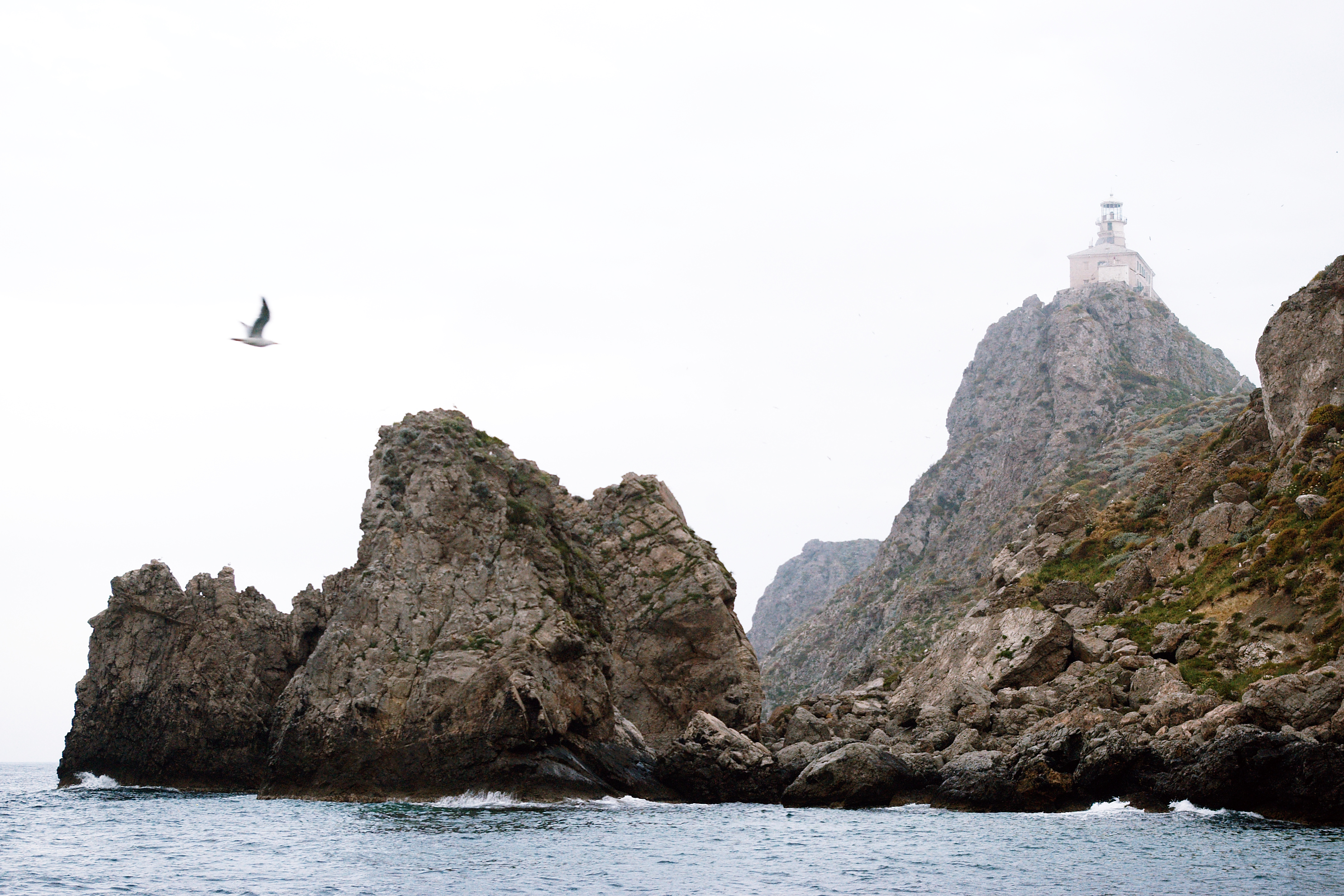 The main island of the Palagruža archipelago in Croatia with the lighthouse.